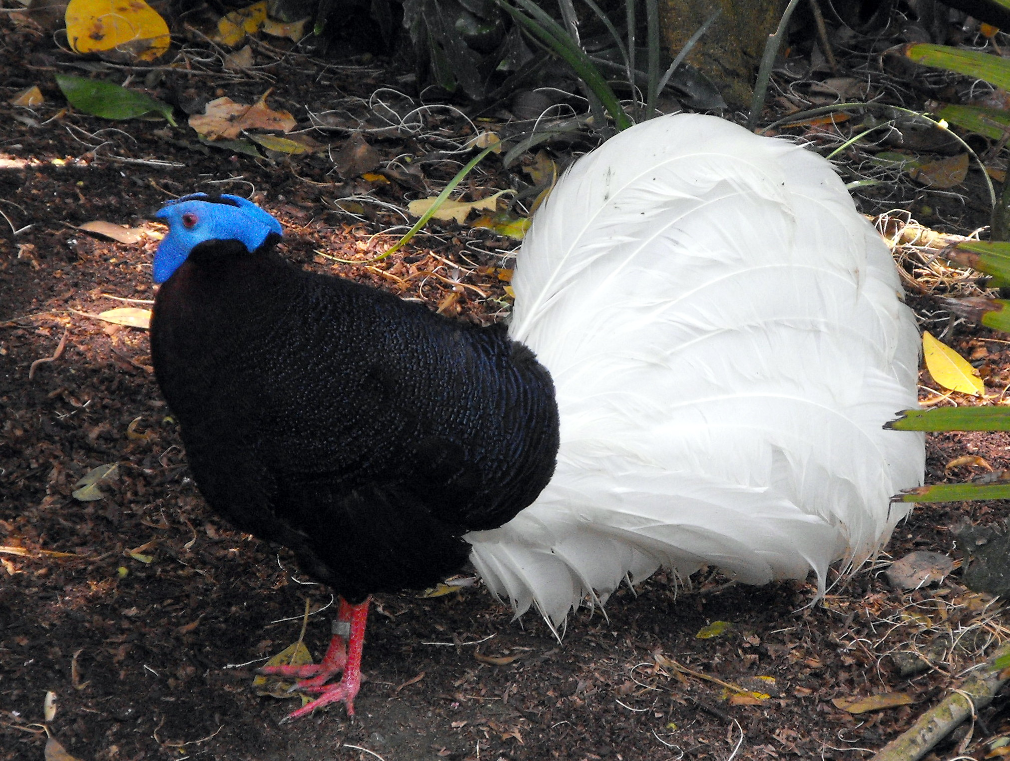 Lophura bulweri, Bulwer's Pheasant, at the San Diego Zoo, California, USA.